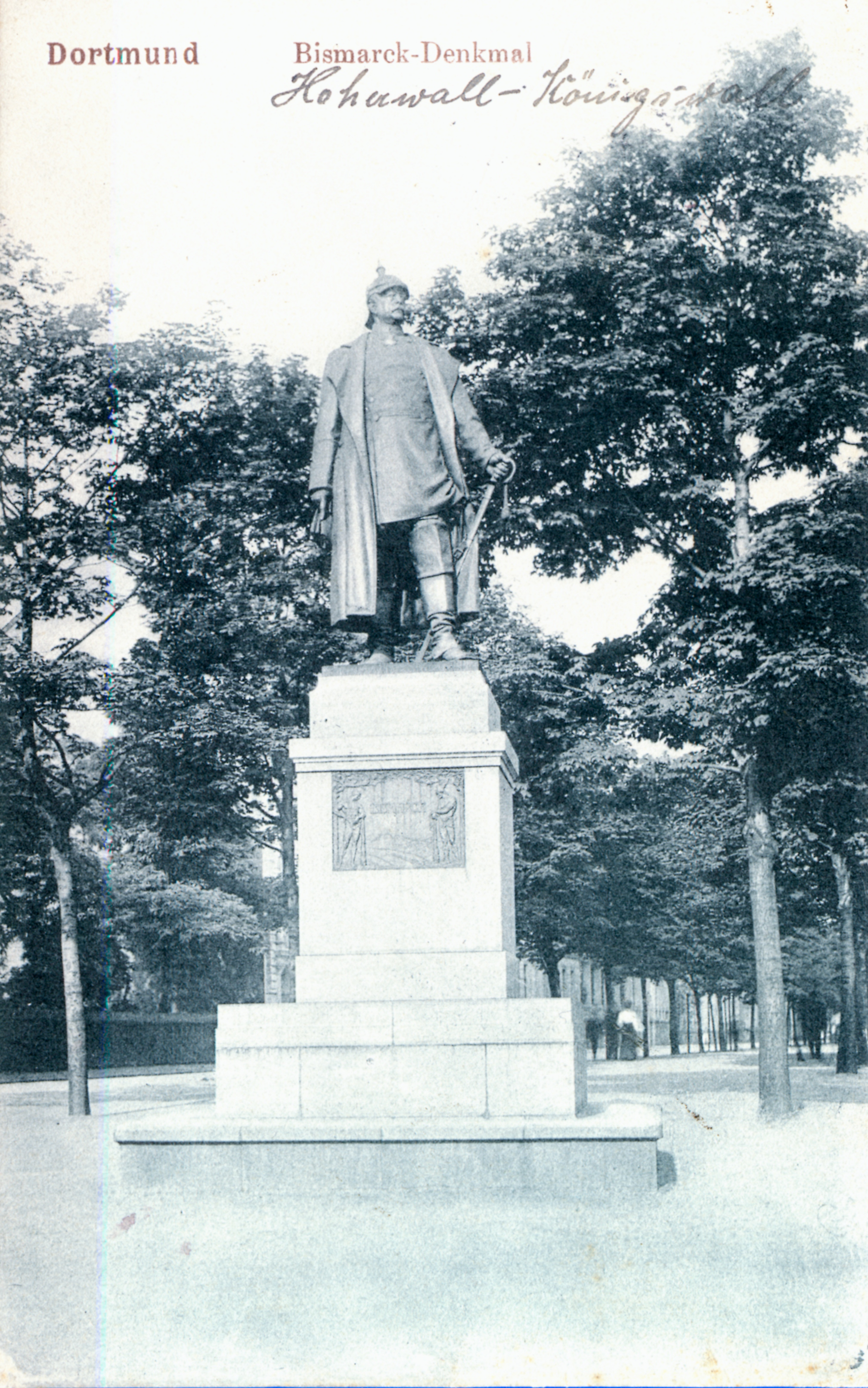 monument of Otto von Bismarck in Dortmund by Wilhelm Wandschneider